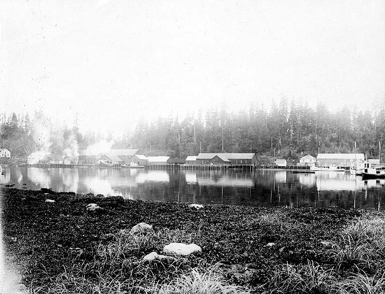 On verso of image: Klawack, Alaska. North Pacific Trading and Packing Co. ? In Folder 69 Subjects (LCTGM): Canneries--Alaska--Klawak Subjects (LCSH): Salmon canning industry--Alaska--Klawak